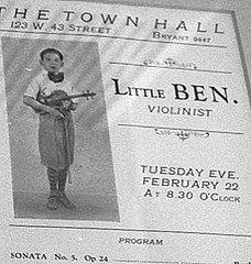 Advertising flyer announcing concert by violinist Benjamin Steinberg, then age 11, as "Little Ben"